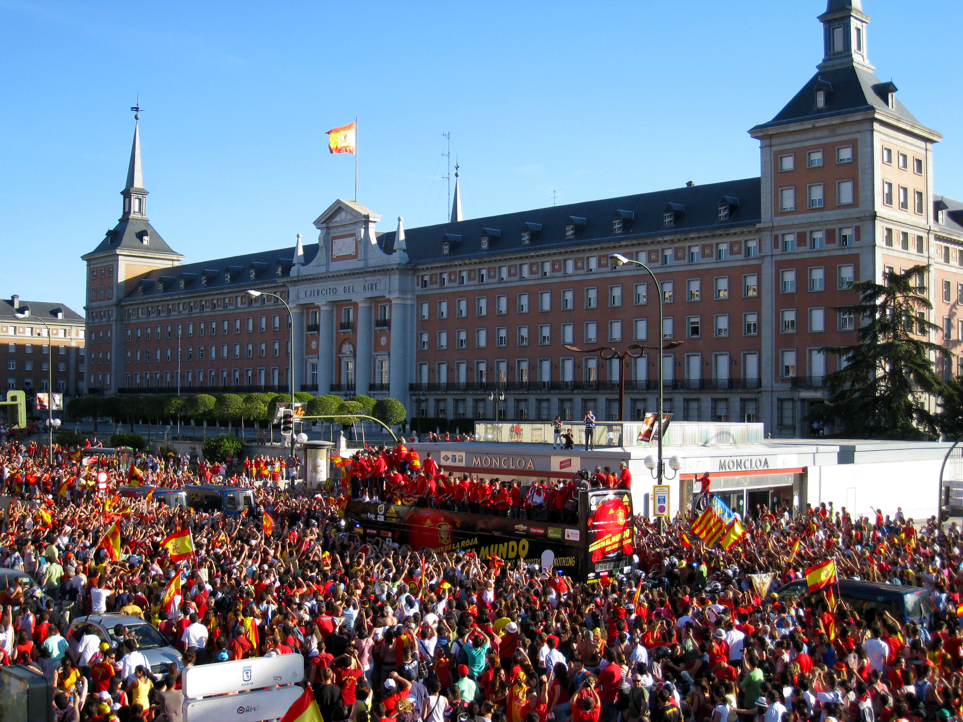 World cup champions celebrate as they pass in front of the Air Force Headquarters in Madrid, July 12, 2010.